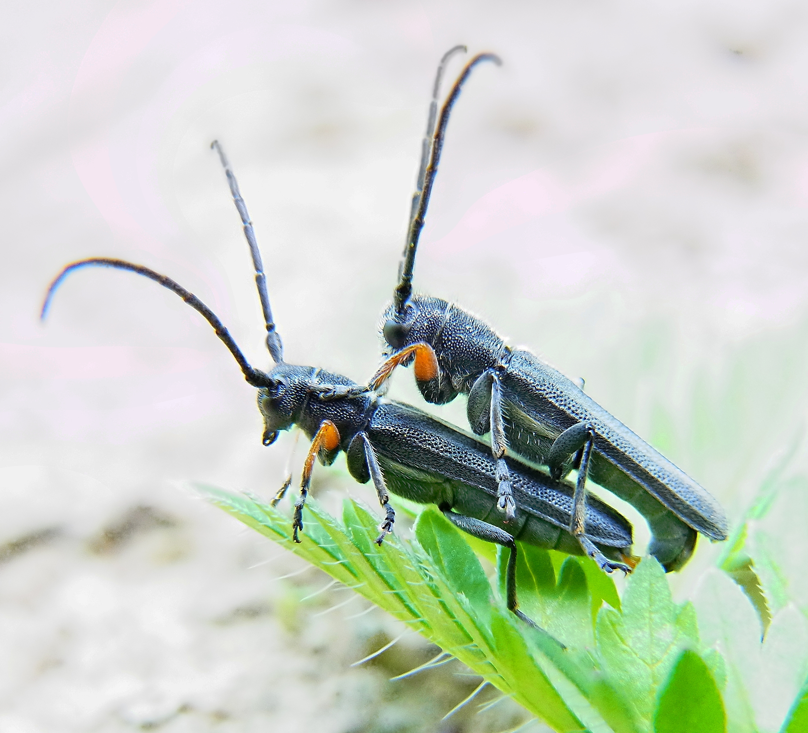 Phytoecia cylindrica from West-Hungary near Csokonyavisonta at 2012-05-02